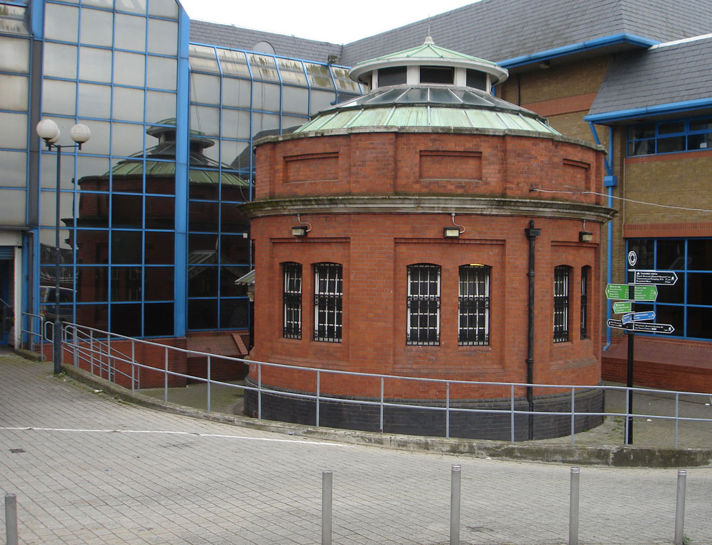 South entrance to Woolwich Foot Tunnel, London, UK. Photo taken by me 19:22, 21 April 2006 (UTC)